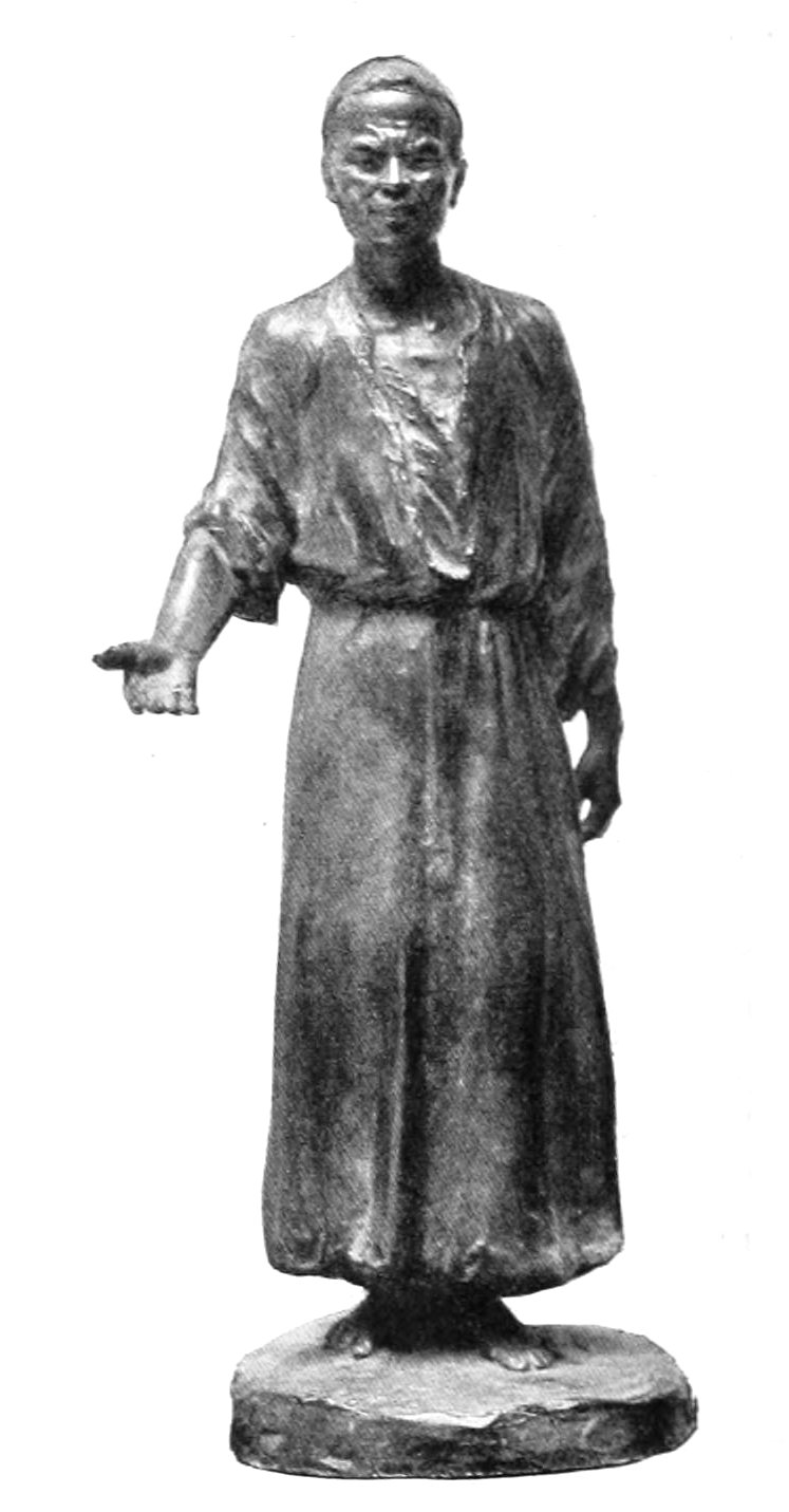 Baksheesh